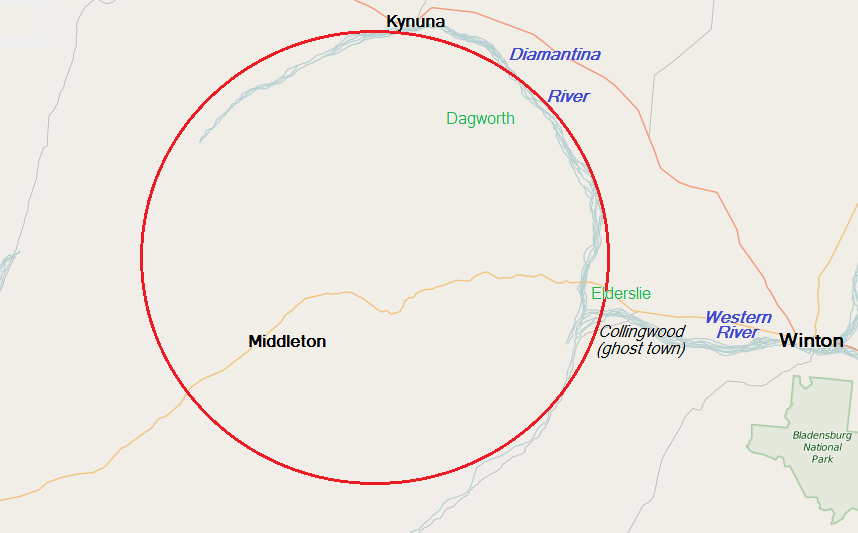 Map of the region west of Winton, Queensland, Australia, in the headwaters of the Diamantina River, that is the subject of geological interest as a possible 300,000,000-year-old impact structure; places marked in green are pastoral stations.